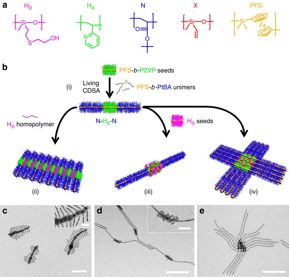 (a) Chemical structures of PMVSOH (HD), P2VP (HA), PtBA (N), PMVS (X) and PFS. (b) Schematic of the assembly processes. TEM images after solvent evaporation of supermicelles formed by (c) mixing HD homopolymer (PMVSOH105) with N-HA-N (540 nm) triblock comicelles (hydroxyl/pyridyl group ratio=5:1); and HD seeds (M(PFS20-b-PMVSOH120), 37 nm) with N-HA-N (1.4 μm) triblock comicelles (hydroxyl/pyridyl group ratio: (d) 20:1 and (e) 1:2) in i-PrOH. Insets in c and d are high magnification images of the HA segments after the adsorption of HD homopolymer and seeds, respectively. Scale bar, 500 or 100 nm (inset). Segments: HA=M(PFS32-b-P2VP448) and N=M(PFS20-b-PtBA280).